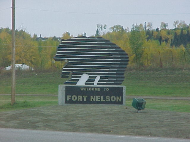 Picture of Fort Nelson, British Columbia taken on September 16, 2001.